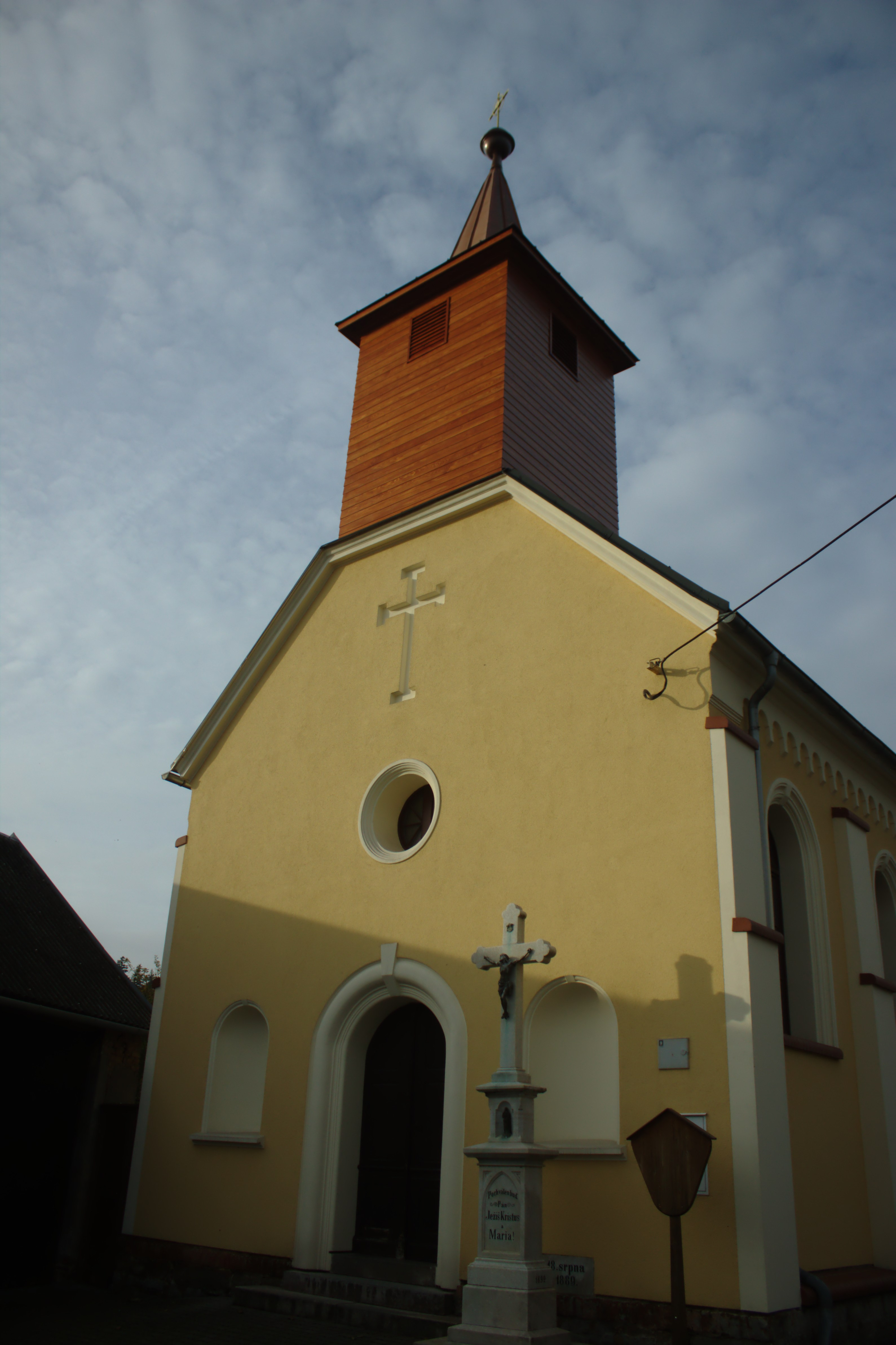 A church at the common in Mikolajice, Moravian-Silesian Region, CZ